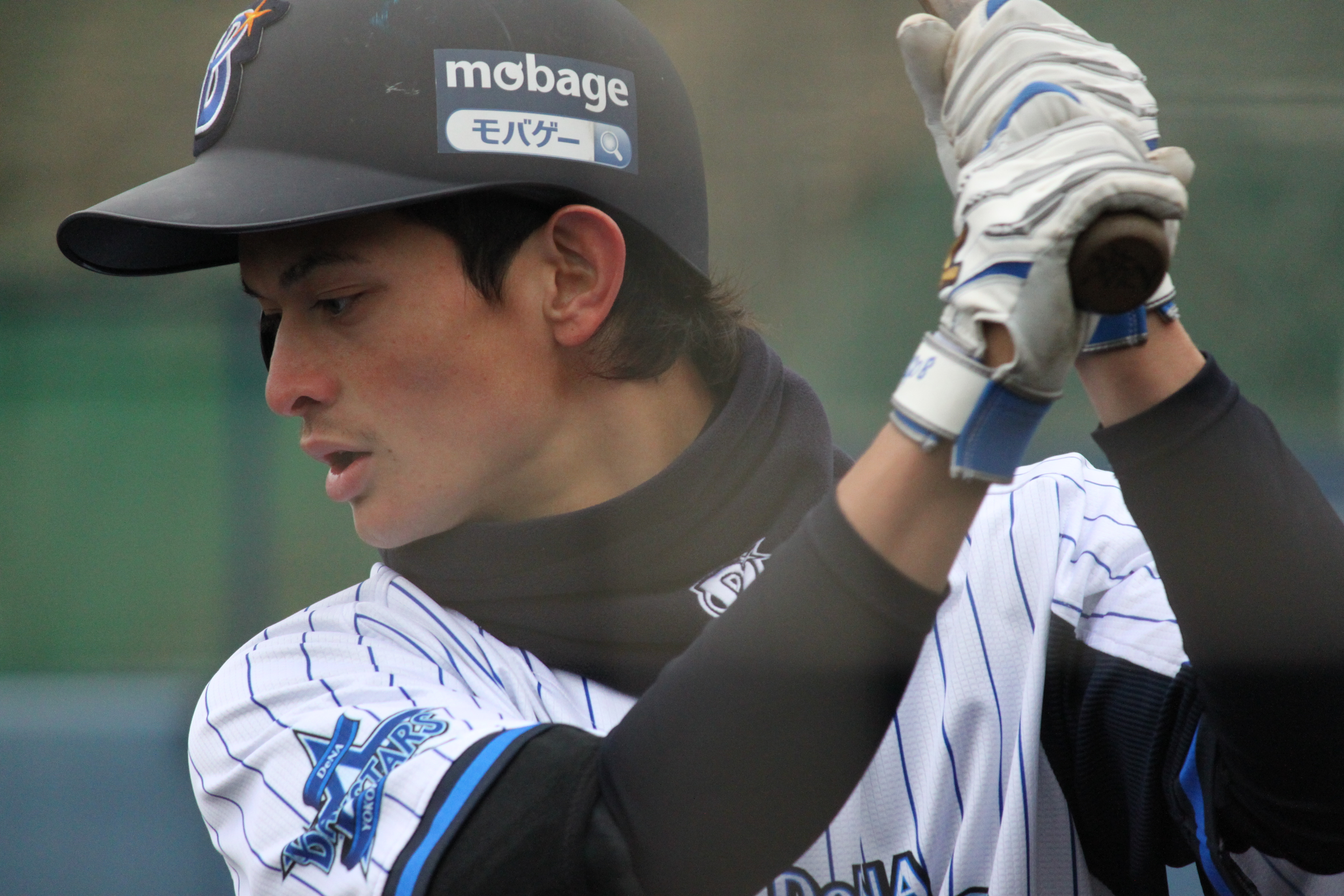 Tomo Otosaka, outfielder of the Yokohama DeNA BayStars, at Yokohama DeNA BayStars Baseball Integrated training field.